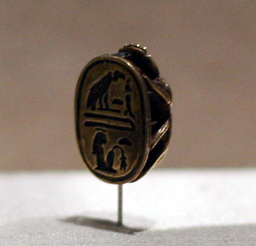 Scarab of the Lady Mutnodjmet, ca. 1336-1327 B.C.E. Gold. Charles Edwin Wilbour Fund, 37.715E. Wikipedia Loves Art at the Brooklyn Museum This photo of item # [1] at the Brooklyn Museum was contributed under the team name "shooting_brooklyn" as part of the Wikipedia Loves Art project in February 2009. Brooklyn Museum The original photograph on Flickr was taken by shooting brooklyn—please add a comment to the original Flickr page whenever a use has been made on Wikipedia or another project. Project galleries on Flickr: this institution, this team